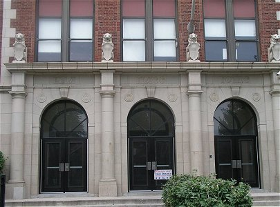 Ella Flagg Young School, Chicago. Outside view.